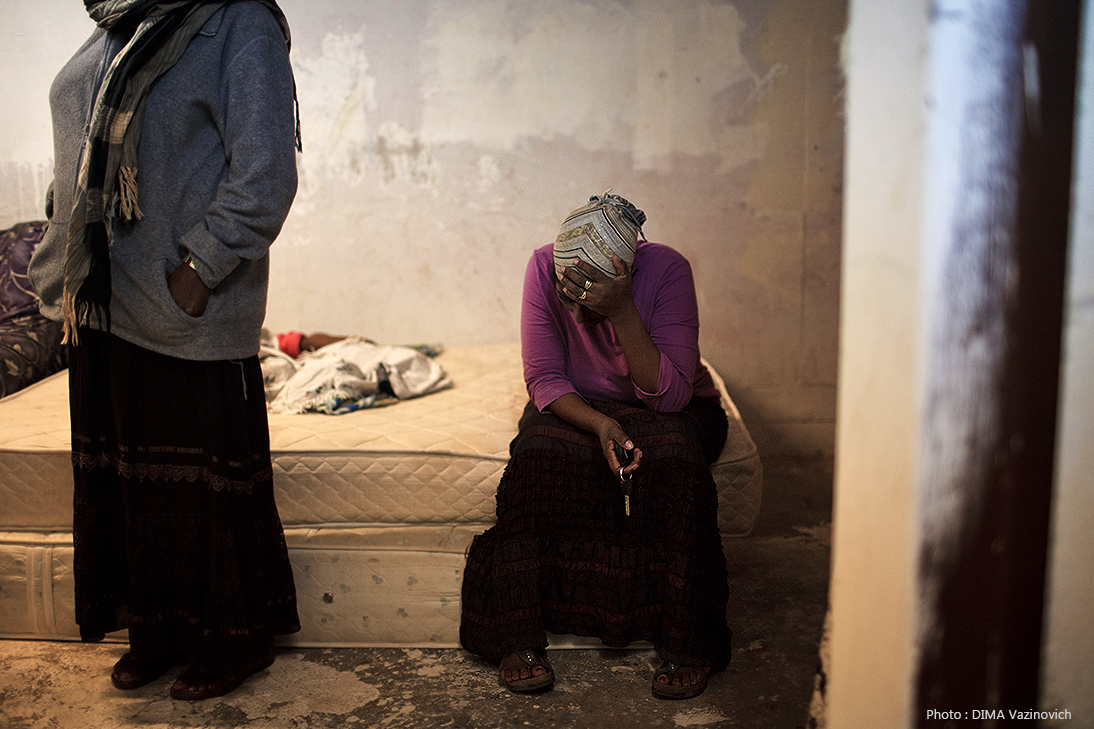 November 18, 2012 More than 500 rockets hit Israel since the beginning of Operation Pillar of Defense. The IDF will not tolerate any attacks on Israeli civilians and will continue to respond to terror emanating from Gaza. Pictured: Israelis hiding in a bomb shelter in Ashkelon while an air siren sounds outside. For more information, see our updating post. Photo by Dima Vazinovich. For more from the IDF